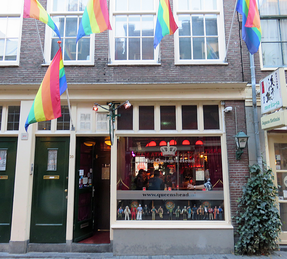 Gay bar Queen's Head at Zeedijk 20 in Amsterdam, established in 1998